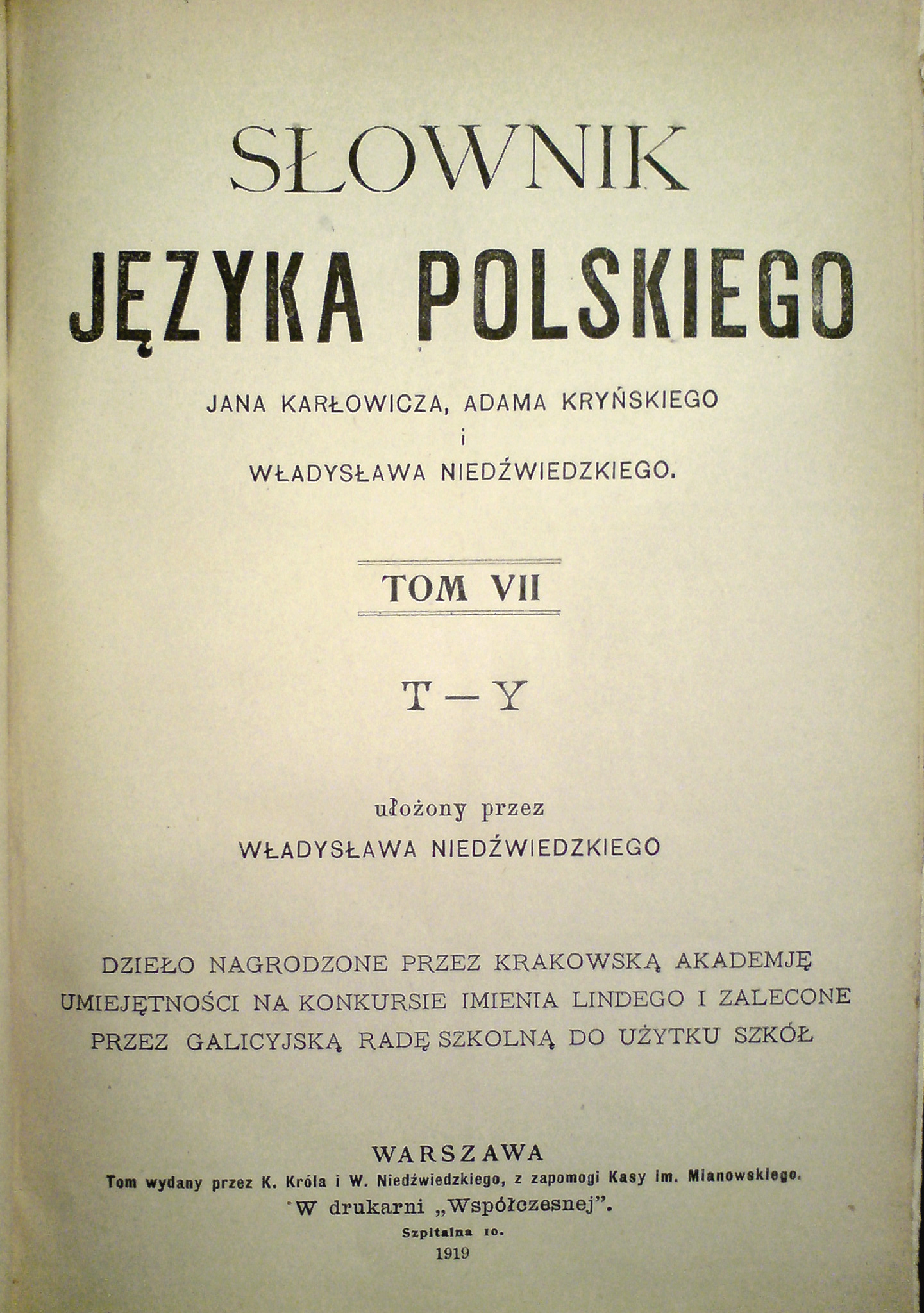 title-page of "'Słownik języka polskiego, ułożony pod redakcją Jana Karłowicza, Adama Kryńskiego i Władysława Niedźwiedzkiego", vol.VII, Warszawa 1919 (Polish Language Dictionary by Karłowicz, Kryński and Niedźwiedzki)